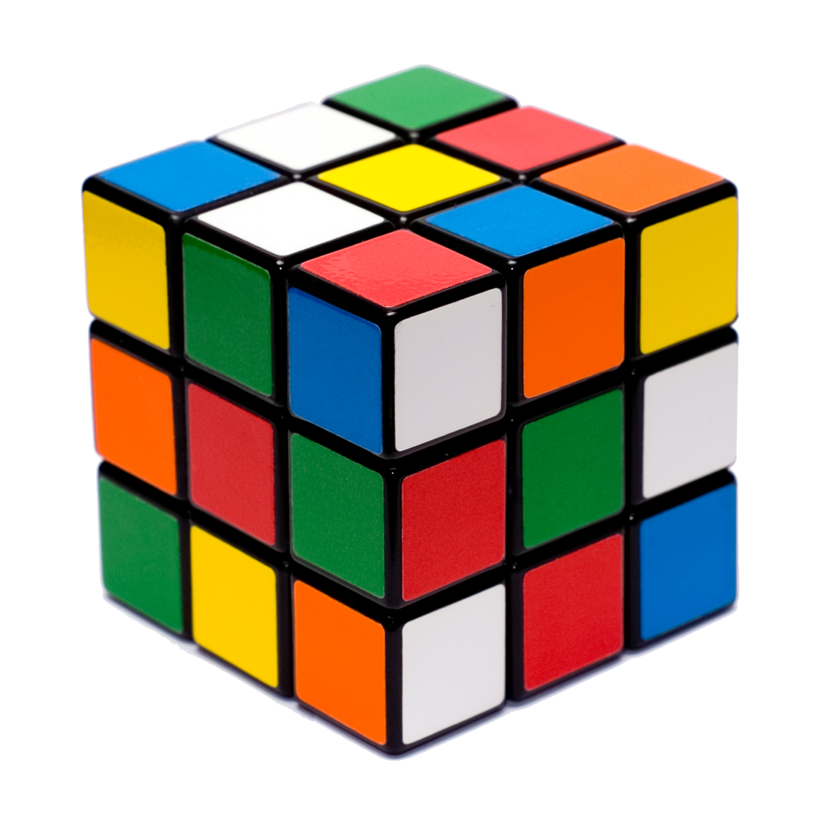 A Rubik cube, it is based on this one but the background in now transparent